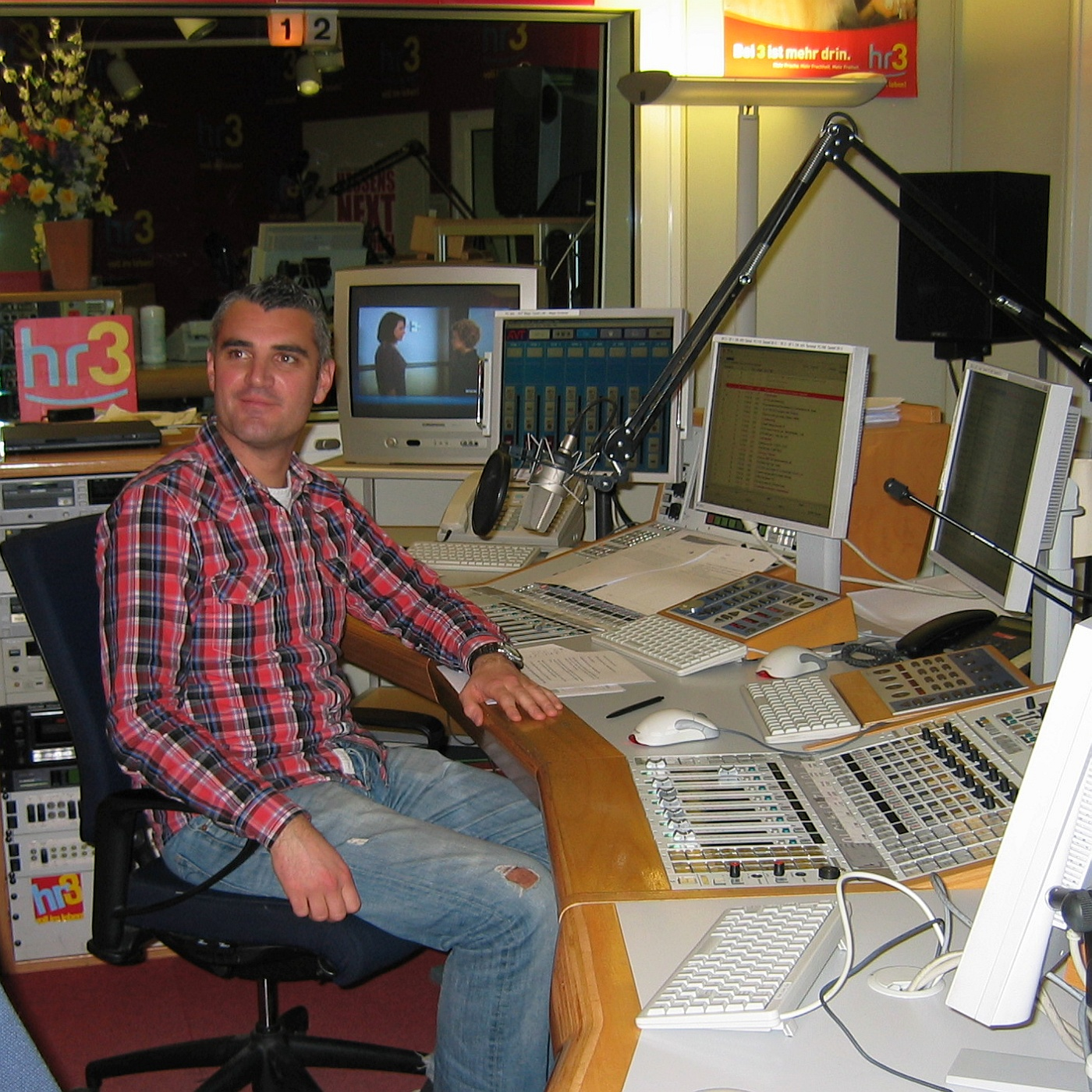 Tim Frühling at radio studio of Hessischer Rundfunk (HR3), Frankfurt am Main